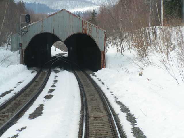 Nishi-Shintoku Signal Box. Photograph taken by Ribbon on 8 April 2006.